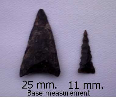 Photo of surface finds, Yadkin and Ft Ancient Serrated.